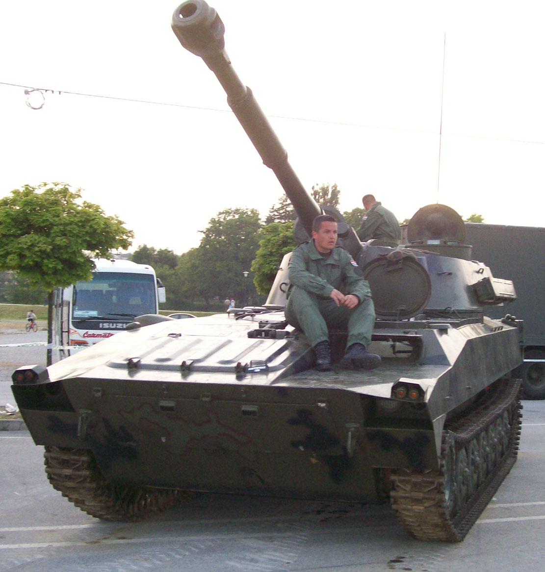 Self-propelled howitzer 2S1 Gvozdika